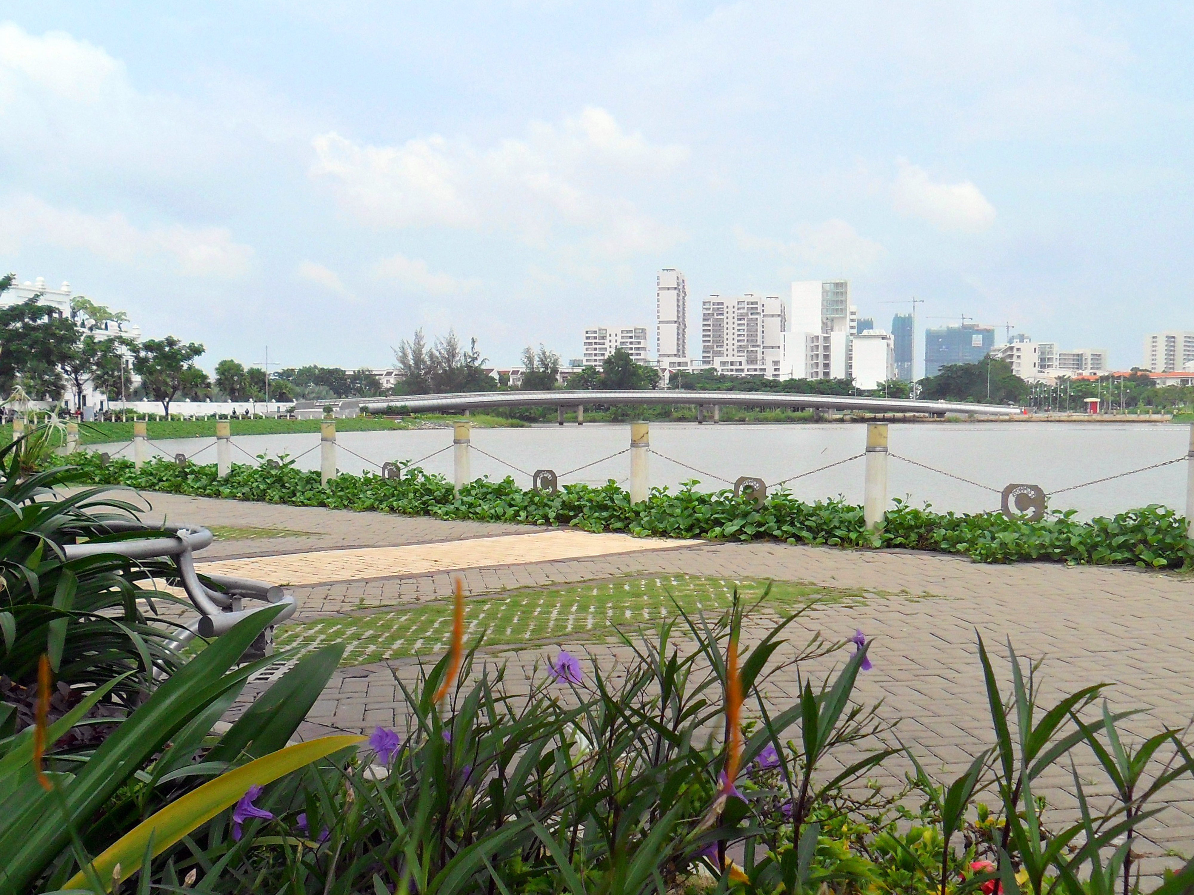 A view of Phu My Hung urban area in Ho Chi Minh City, Vietnam.